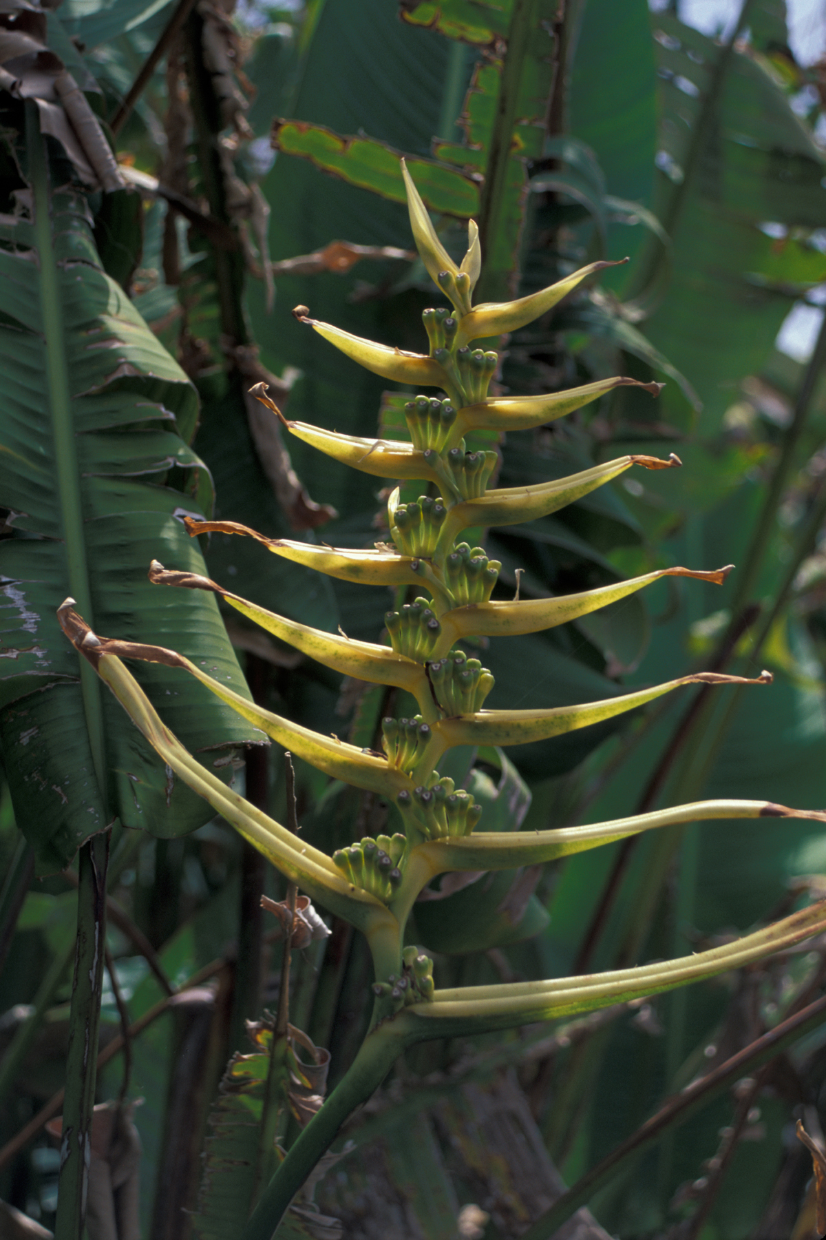 Heliconia lingulata (flowers). Location: Maui, Enchanting Floral Gardens of Kula